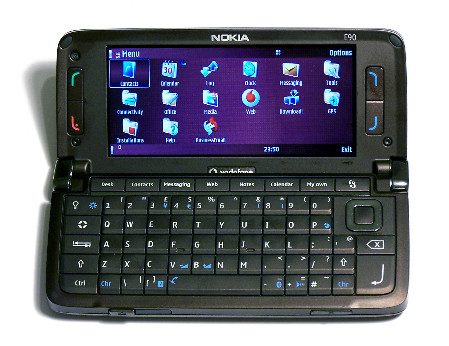 A Vodafone-branded Nokia E90 (open).